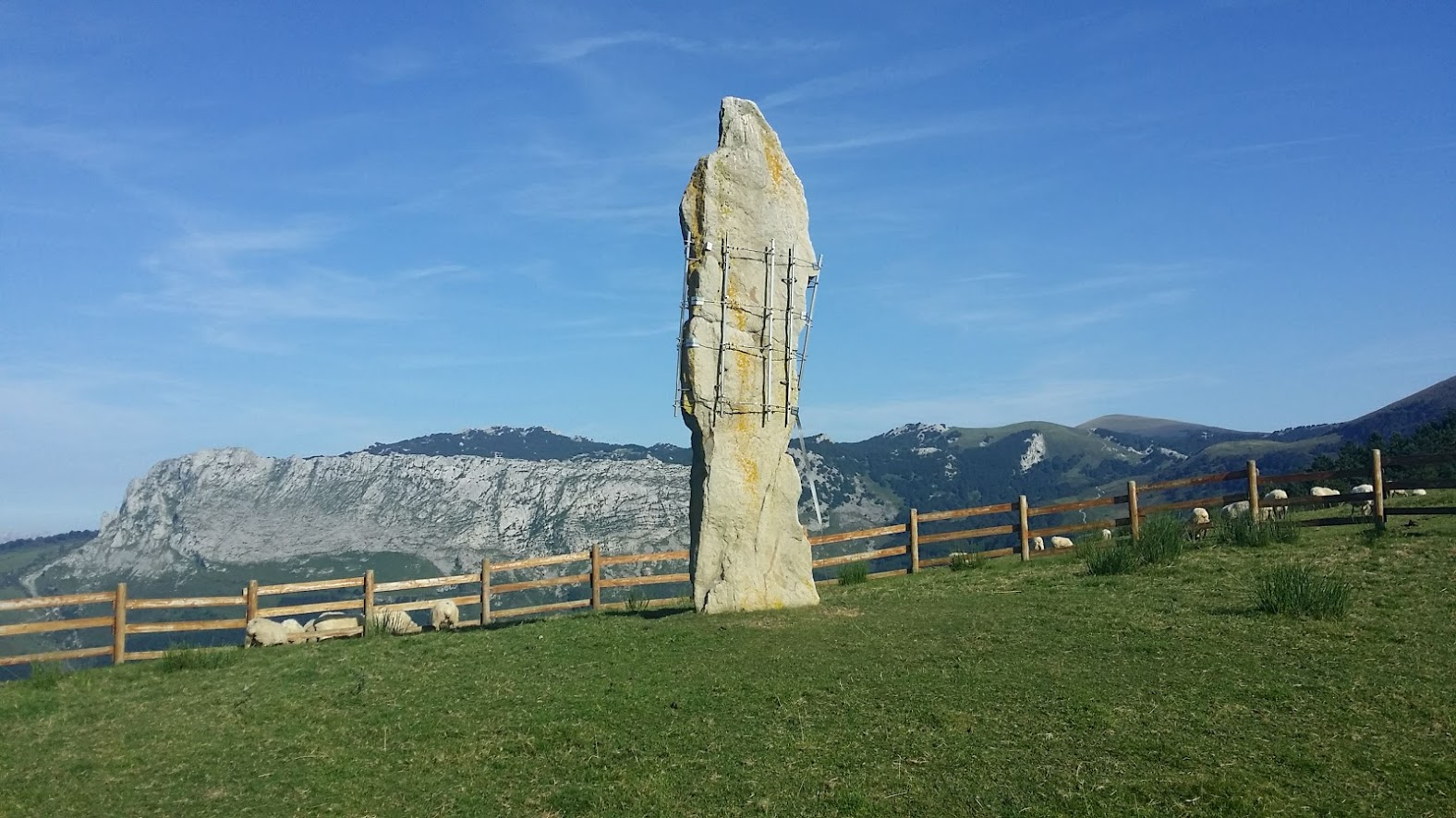 Menhir of Kurtzegan. Orozko. (Biscay)